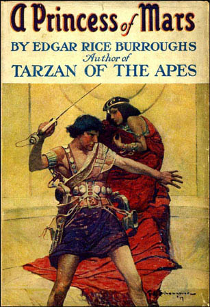 Cover of A Princess of Mars by Edgar Rice Burroughs published by McClurg.